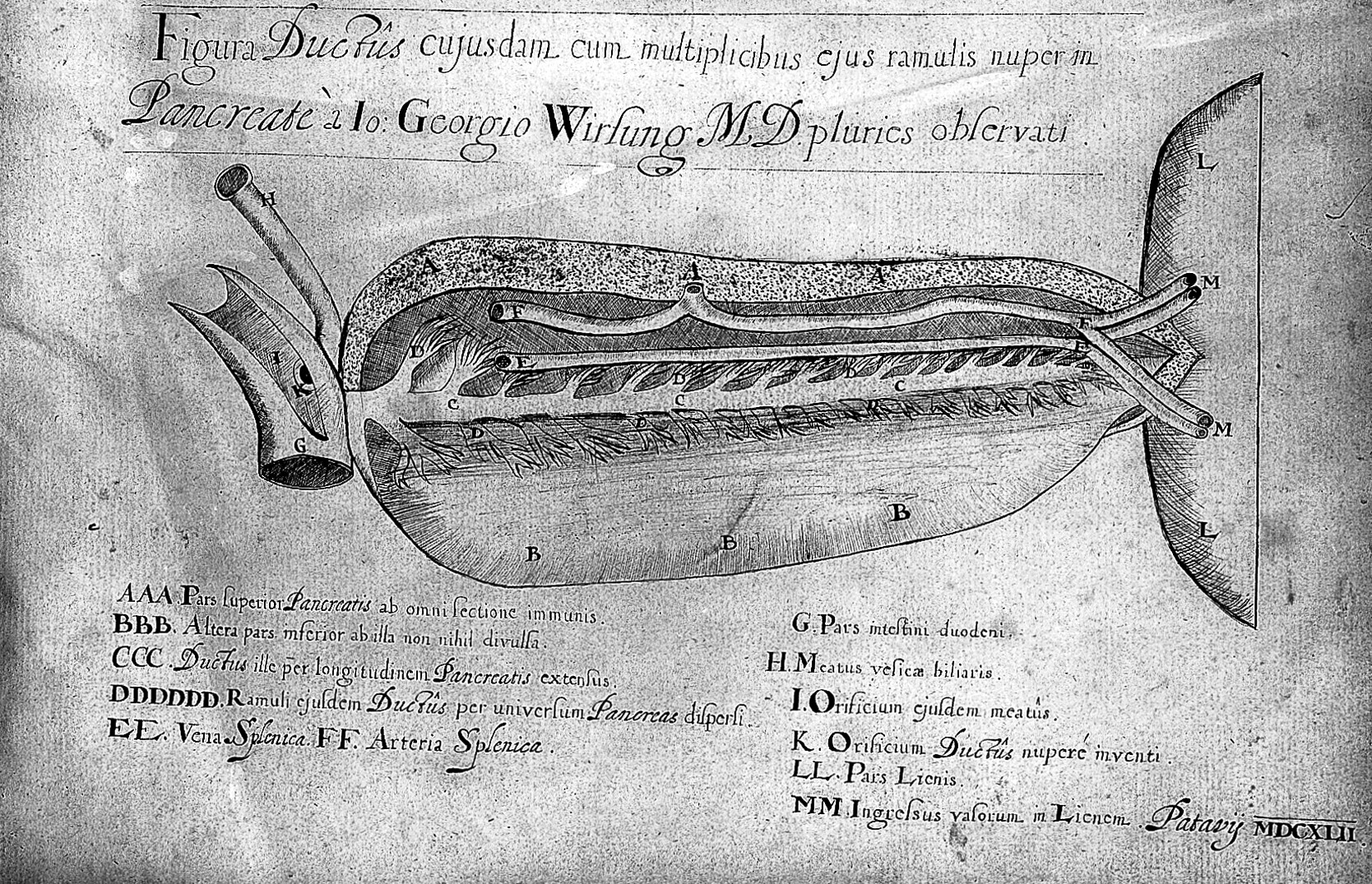 Anatomical pen-drawing of the pancreas Rare Books Keywords: Anatomy; Johann Georg Wirsung